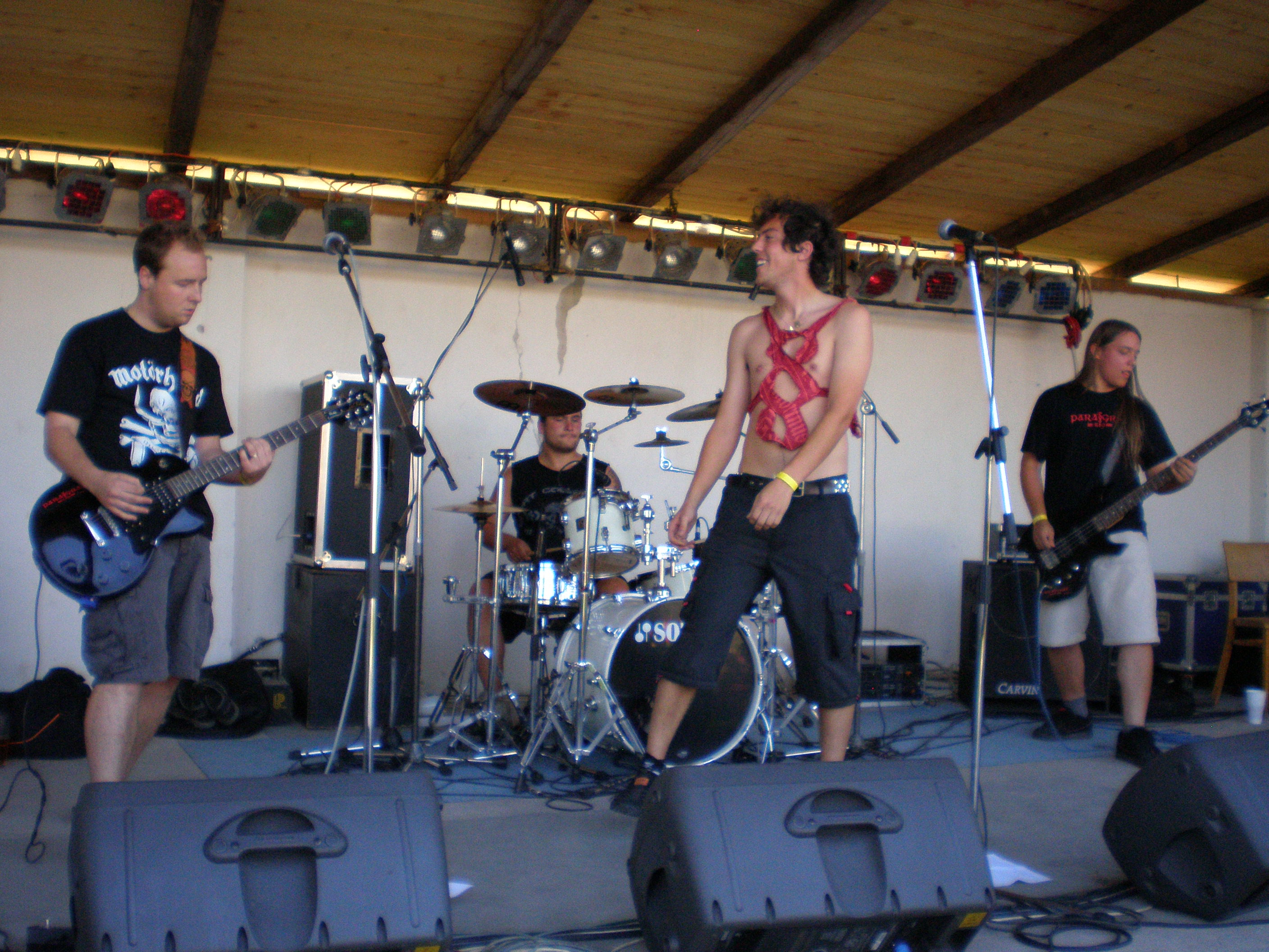 Czech punk band - Paragraf 219